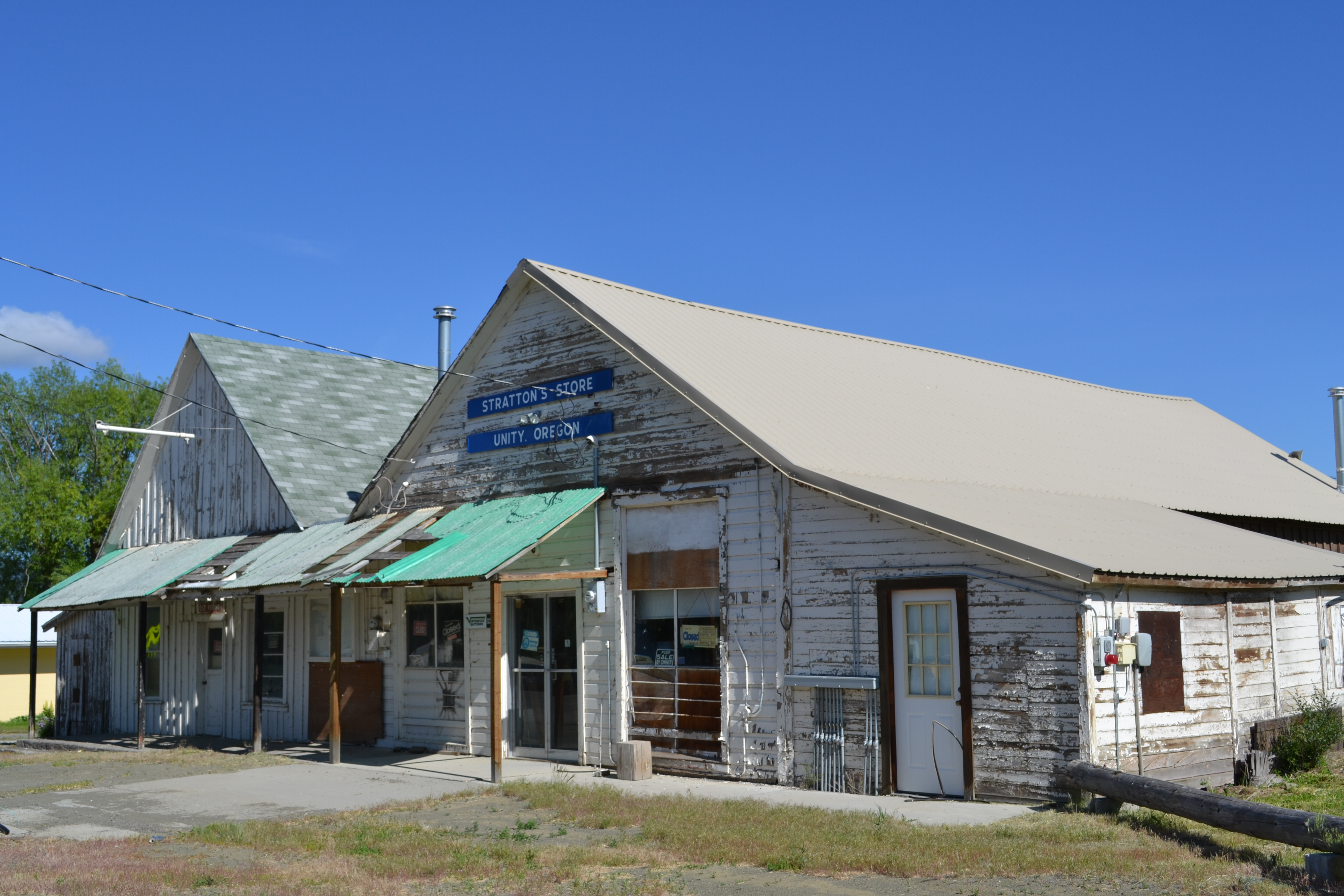 Stratton's Store, Unity, Oregon